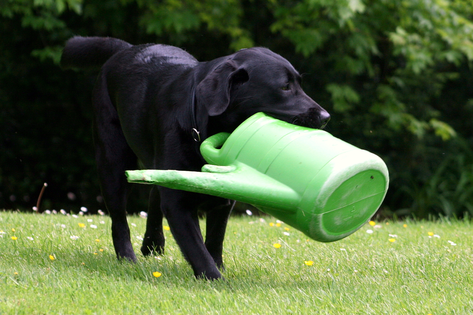 Labrador beim Apportieren - ZsaZsa, the beautyful black Lady